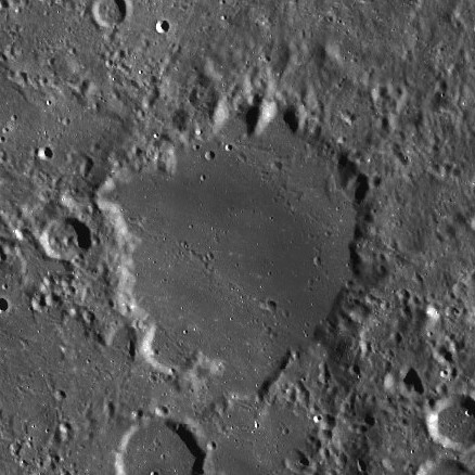 Nishina lunar crater - LROC image